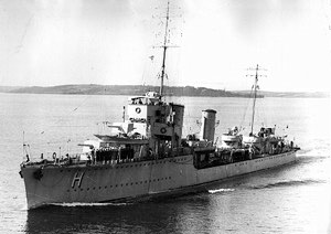 Chilean Destroyer CNS Hyatt circa 1932